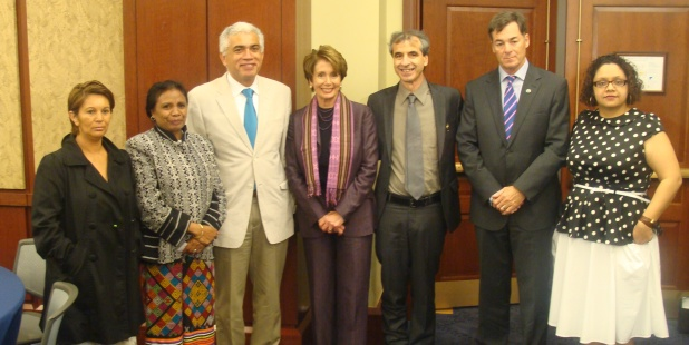 Congresswoman Pelosi stands with the 2013 Goldman Environmental Prize recipients and celebrates their significant efforts to protect and enhance the natural environment across the world.